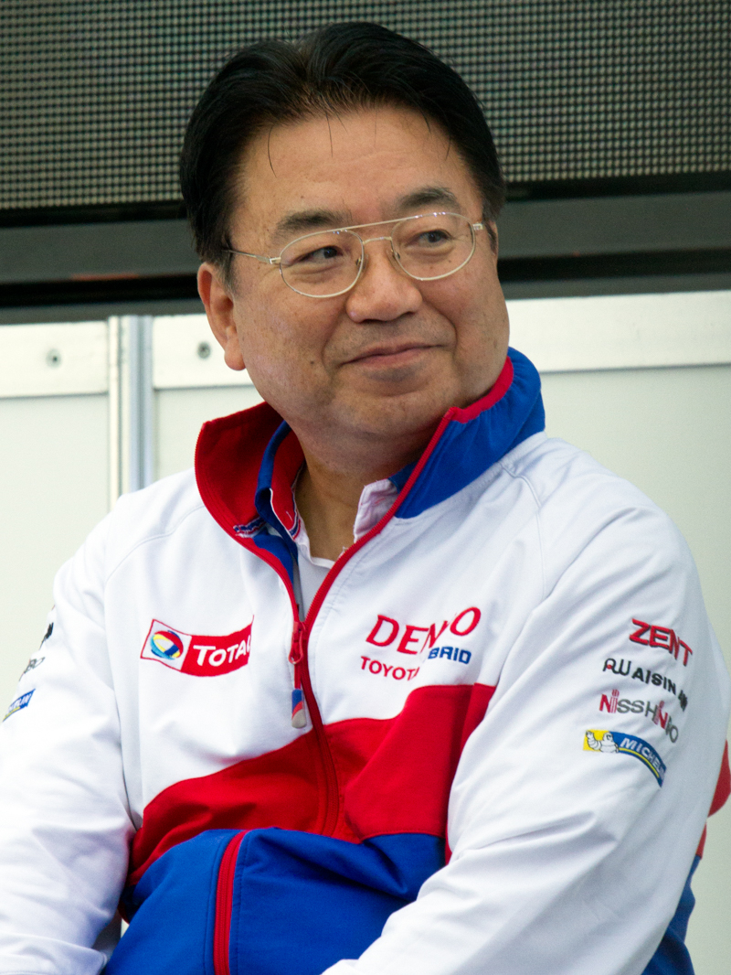 FIA World Endurance Championship 2014 Rd.5 6 Hours of Fuji: Yoshiaki Kinoshita, the president of Toyota Motorsport GmbH